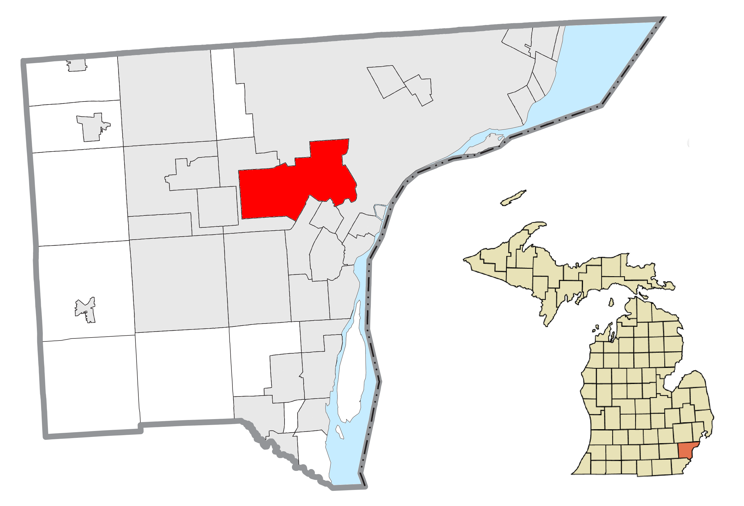 Dearborn, MI